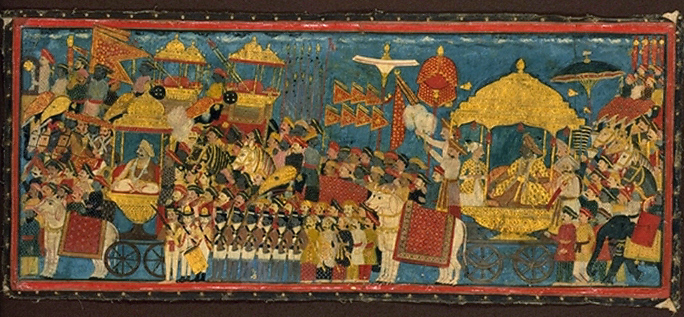 Company style painting depicting two rulers of Thanjavur, Ramaswami Amarasimha Bhonsle (larger carrriage) and Serfoji II (smaller carriage).